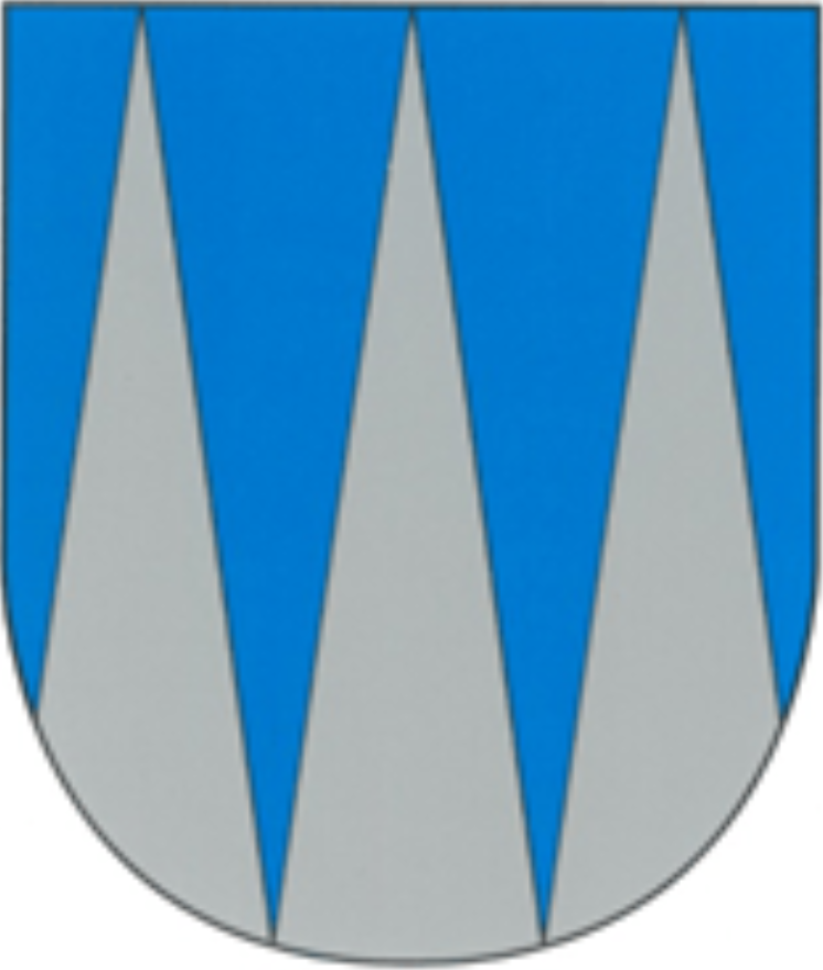 Coat of arms Going am Wilden Kaiser.